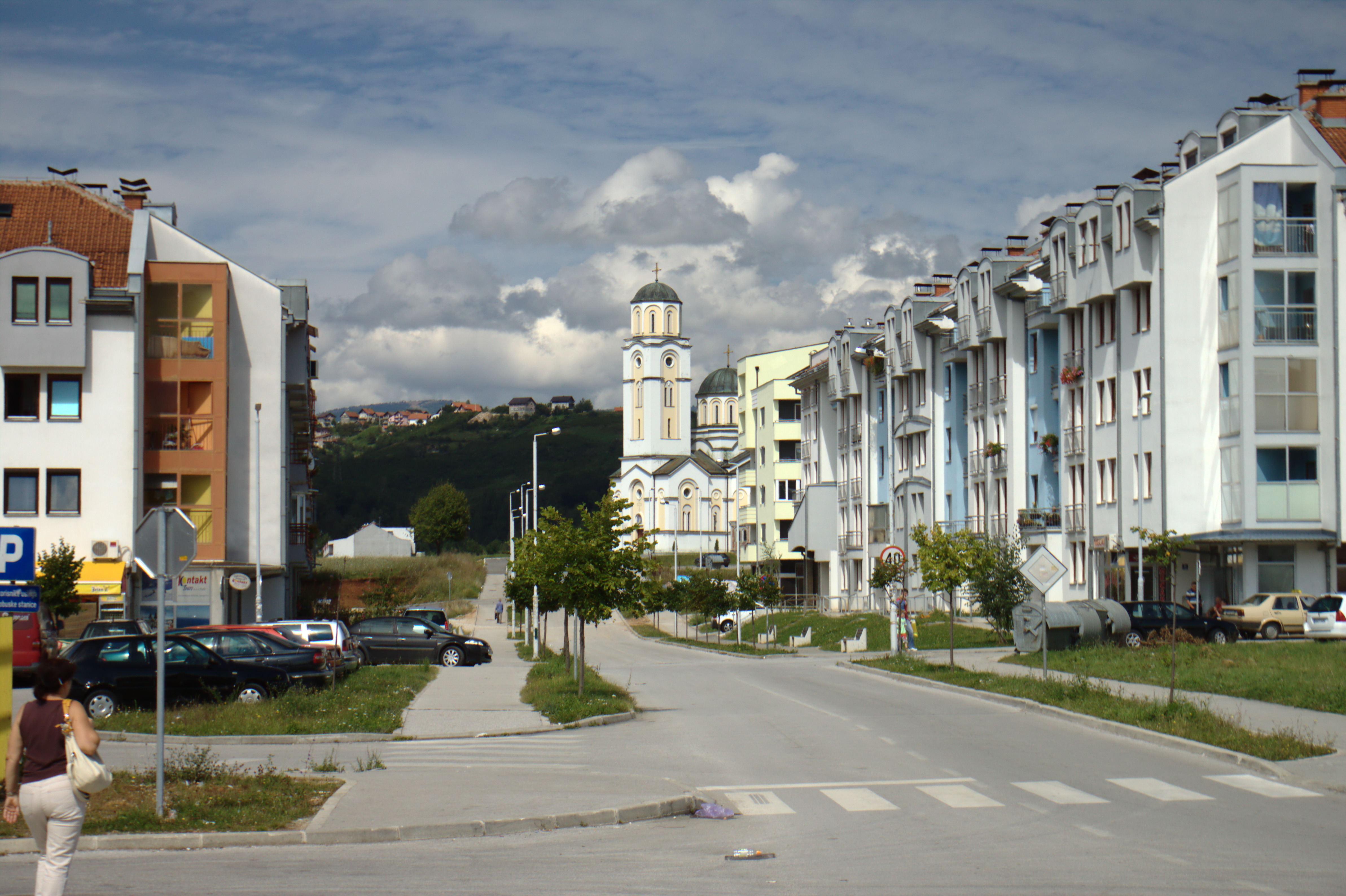 Main road in East Sarajevo, Republika srpska